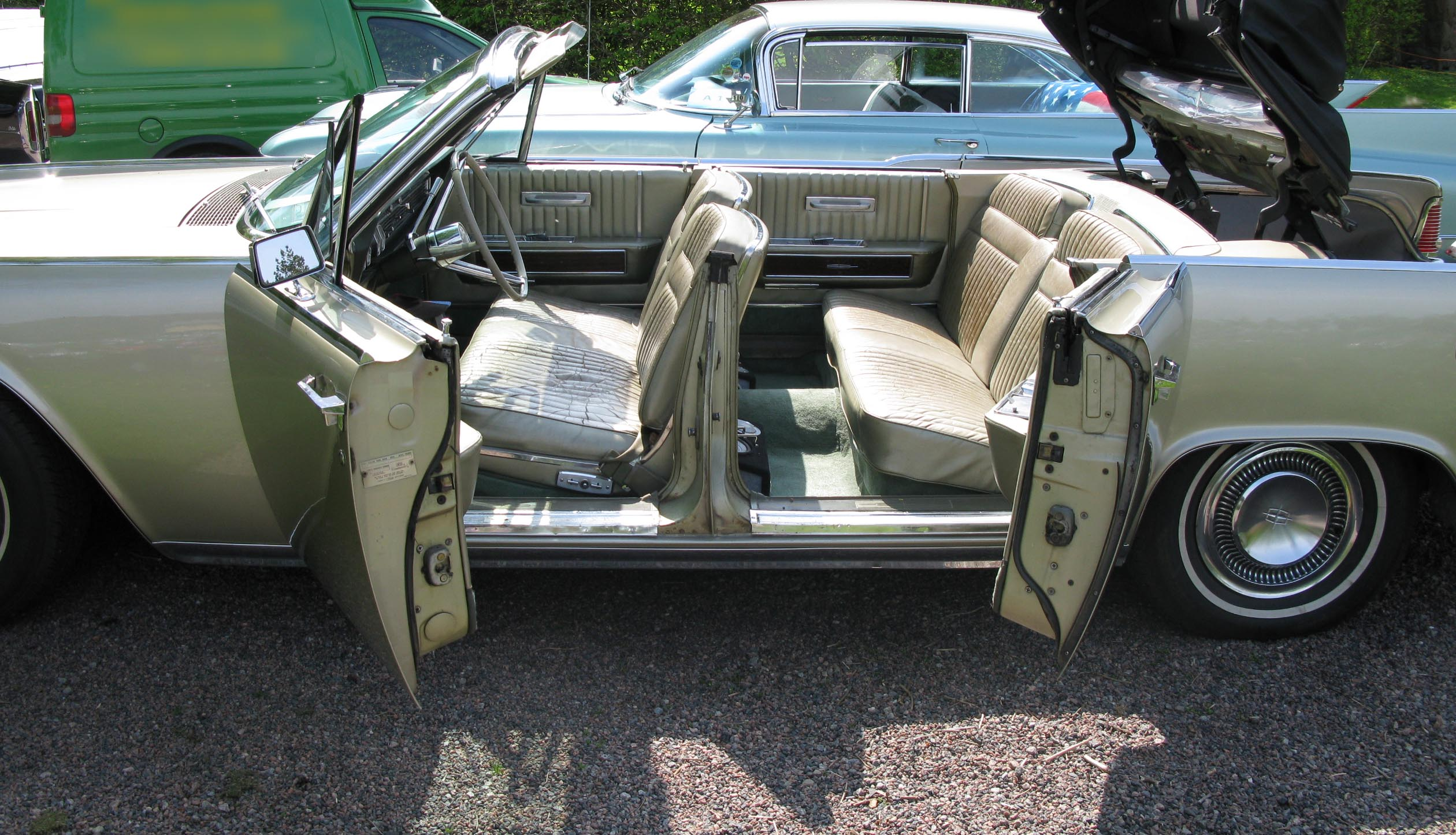 Lincoln Continental doors wide open.Event: Tjolöholm Classic Motor 2012.